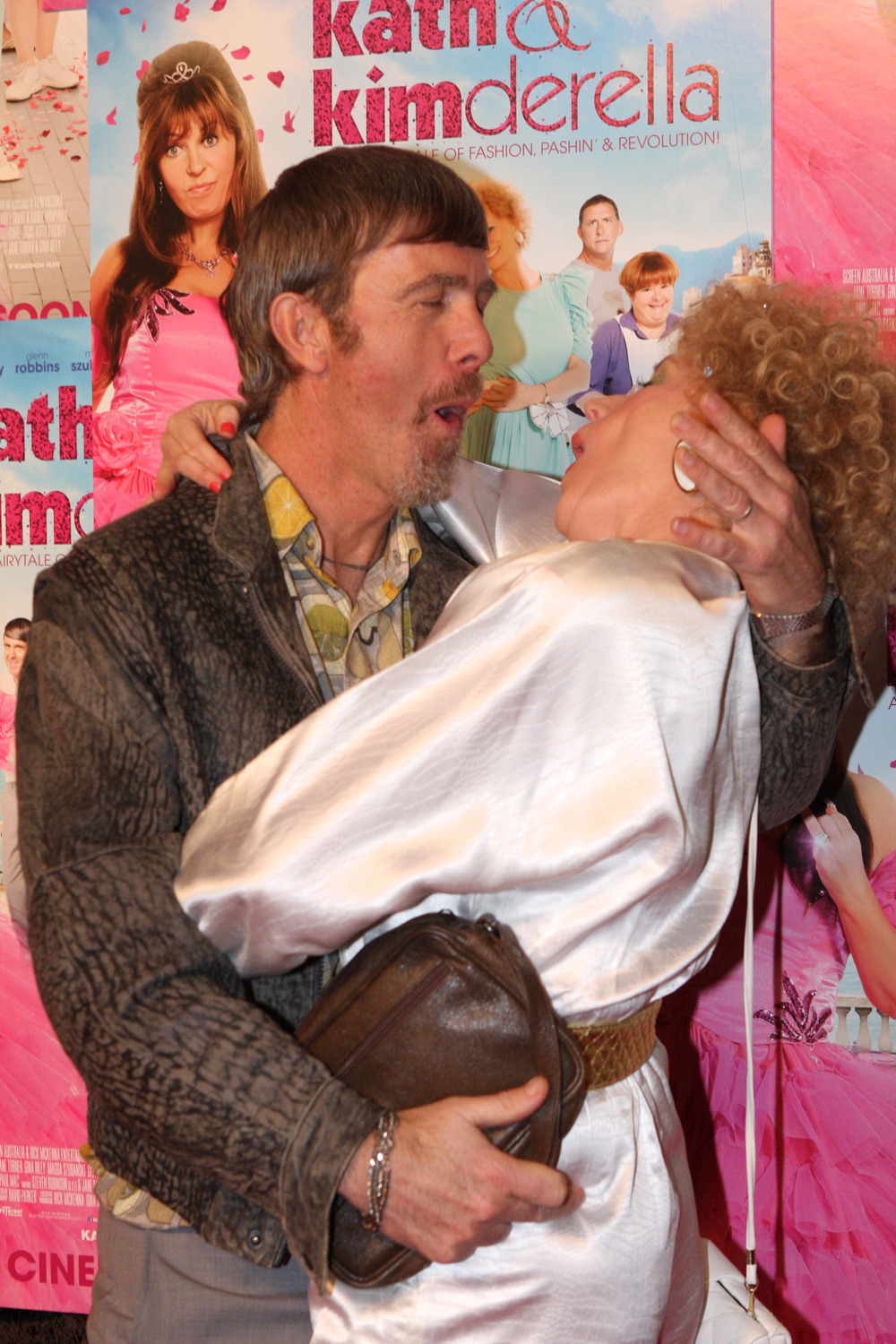 Kath & Kimderella movie premiere at Entertainment Quarter; Sydney, Australia Tonight the Australian "foxy moron" (Kath & Kim lingo) film enjoyed its Australian premiere at Entertainment Quarter in the shadow of Fox Studios Australia, Moore Park. The Kath & Kim franchise is well established and its usually a case of you either love them or hate them. Tonight there were hundreds of lovers of course. Some passionate fans dressed up as their idols - including some grown men in K&K drag. The girls at the premiere switched in and out of character, as they often do in news media interviews. The Flick... Kath, Kim and the latter's daggy offsider, Sharon (Magda Szubanski) are soon shipped off to Papilloma, a bankrupt principality in Italy, where the monarch, King Javier (Rob Sitch) mistakes Kath for a wealthy noble and plans to seduce her, while his son fixates on Kim as a princess. Plot... Fountain Lakes’ foxiest ladies turn more than just heads when they go on an OS trip and end up being the centre of their very own fairytale. Starring: Jane Turner, Gina Riley, Magda Szubanski, Glenn Robbins & Peter Rowsthorn. Director: Ted Emery Kath & Kimderella opens nationally Thursday, September 6. Websites Kath & Kimderella official website Kath & Kim official website Roadshow Films Eva Rinaldi Photography Flickr Eva Rinaldi Photography Music News Australia